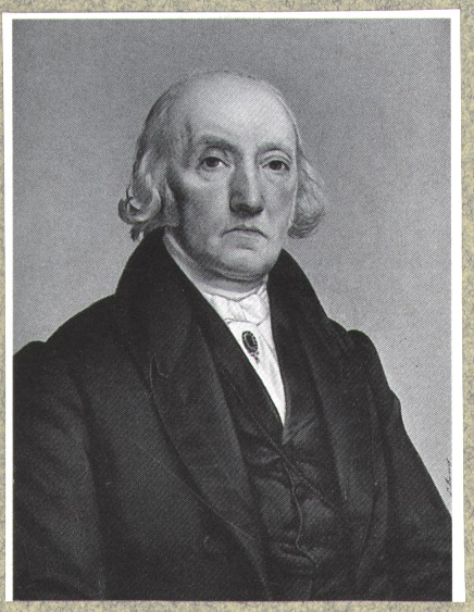 Antoine Bournonville (1760-1843), Danish choreographer